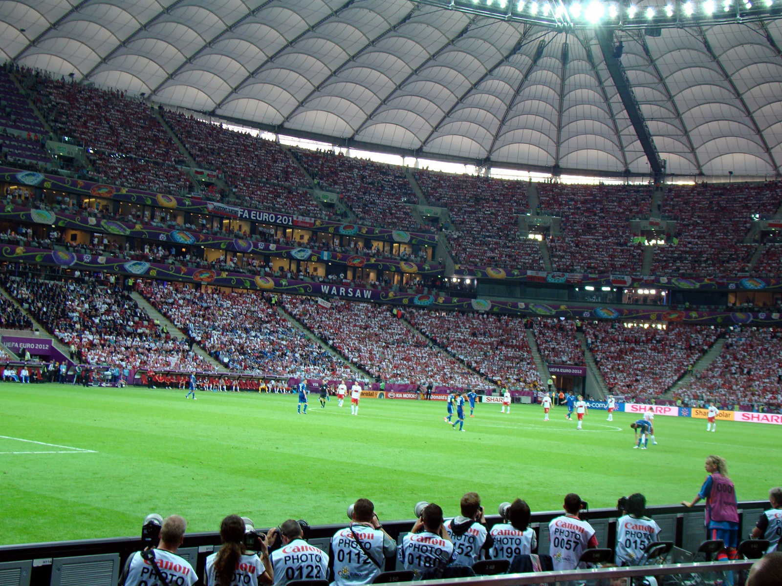 UEFA Euro 2012 opening match between Poland and Greece.